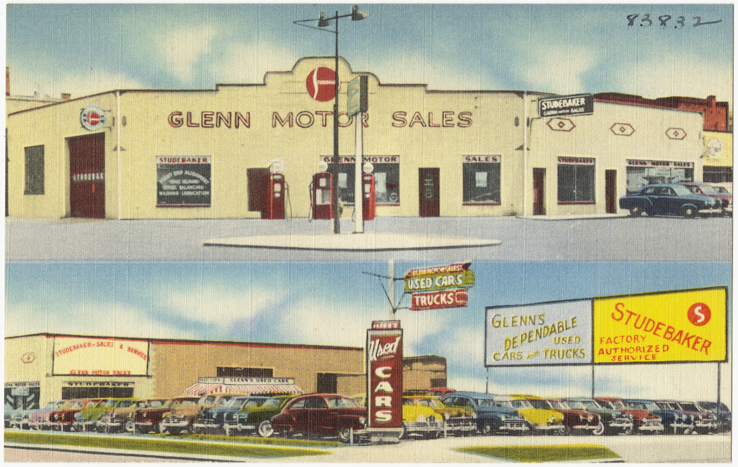 File name: 06_10_014608 Title: Glenn Motor Sales, 600 Saginaw St., Bay City, Mich. Date issued: 1930 - 1945 (approximate) Physical description: 1 print (postcard) : linen texture, color ; 3 1/2 x 5 1/2 in. Genre: Postcards Subject: Automobile service stations Notes: Title from item. Collection: The Tichnor Brothers Collection Location: Boston Public Library, Print Department Rights: No known restrictions